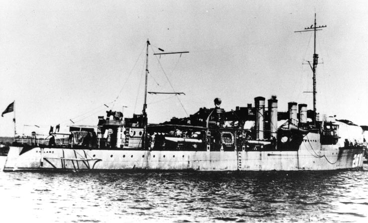 Removed caption read: Photo # NH78139 USS Ballard (DD-267), about 1920